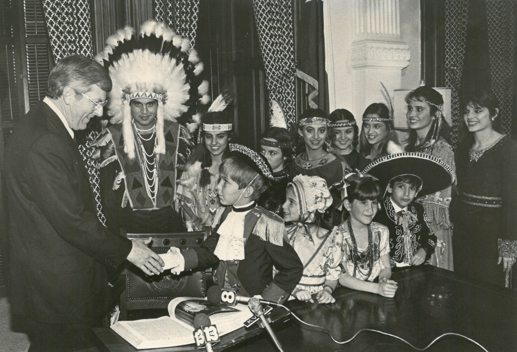 In Austin w/ Govenor Mark White